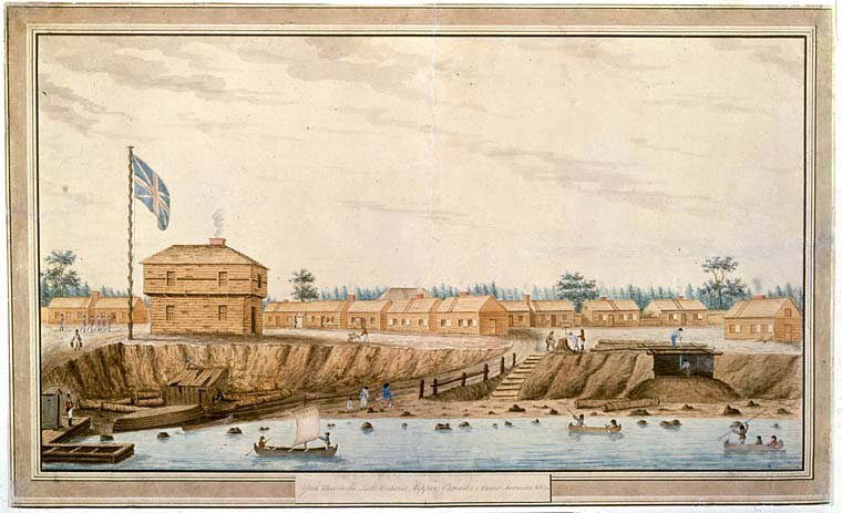 York Barracks Lake Ontario Upper Canada in 1804 (a very early picture of Ontario by Sempronius Stretton